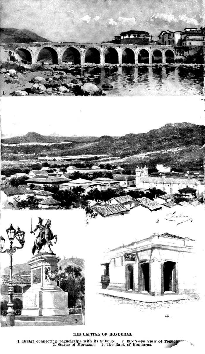 Images of Tegucigalpa back in the 1800's